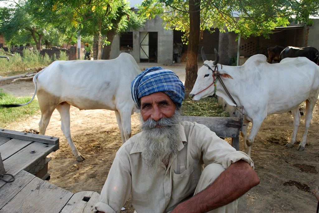 Sikh farmer in rural Hoshiarpur